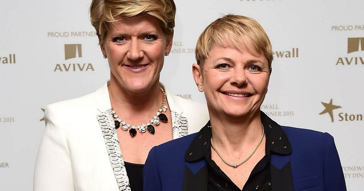 marriage of clare balding and alice arnold